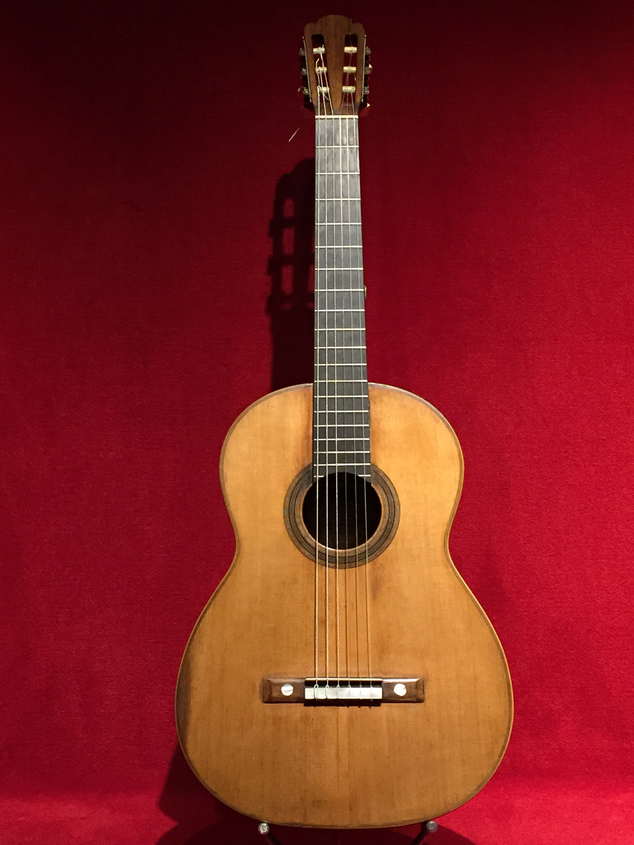 Guitar by Antonio de Torres used by Miquel Llobet in his concerts References MDMB 626: Guitarra, Antonio de Torres Jurado (1859). Catalogue online, Museo de la Música.